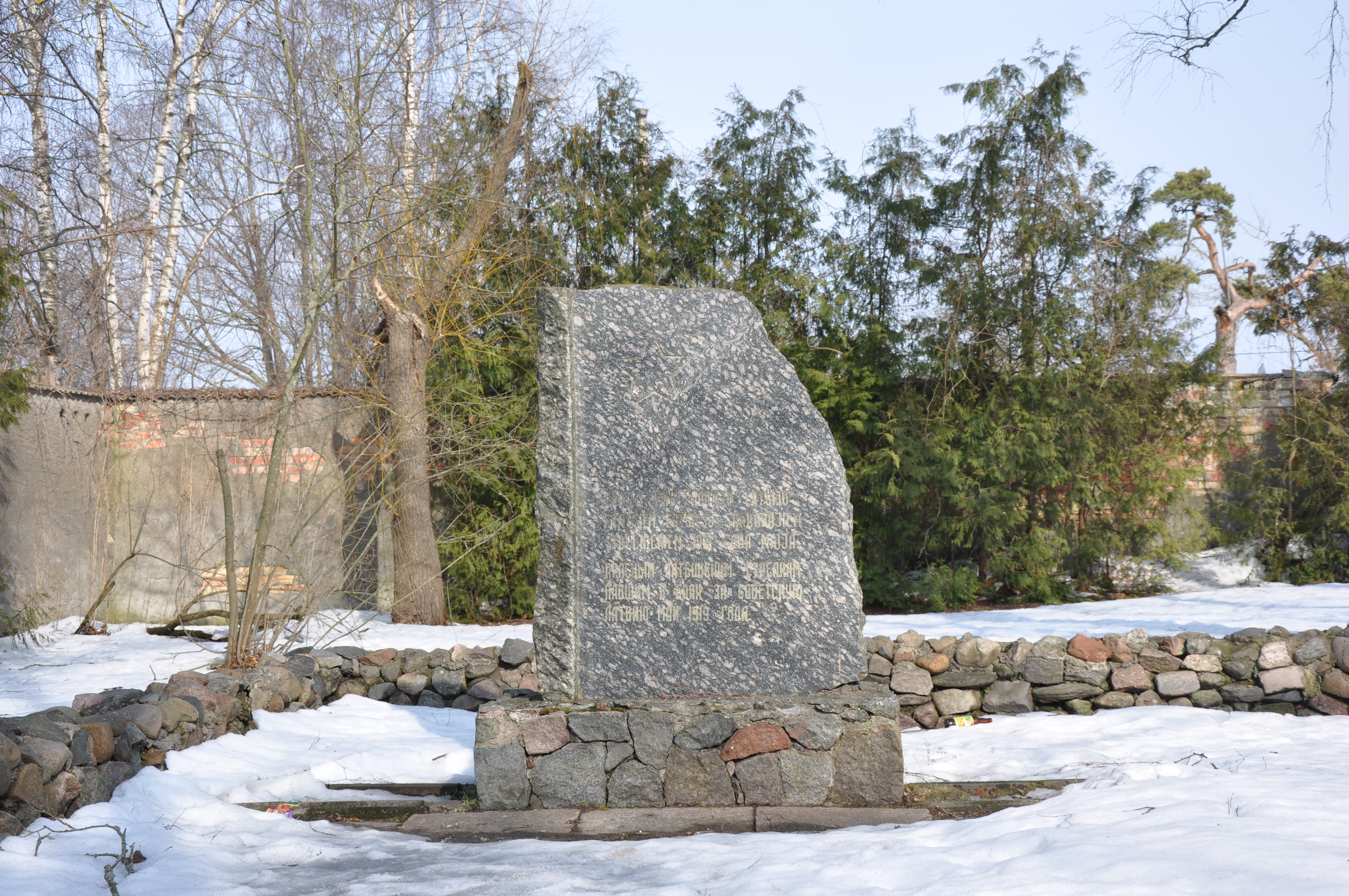 Monument for Latvian Red riflemens